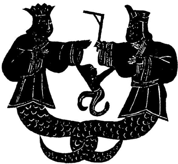 Nuwa and Fuxi, two of the Three Divine Rulers